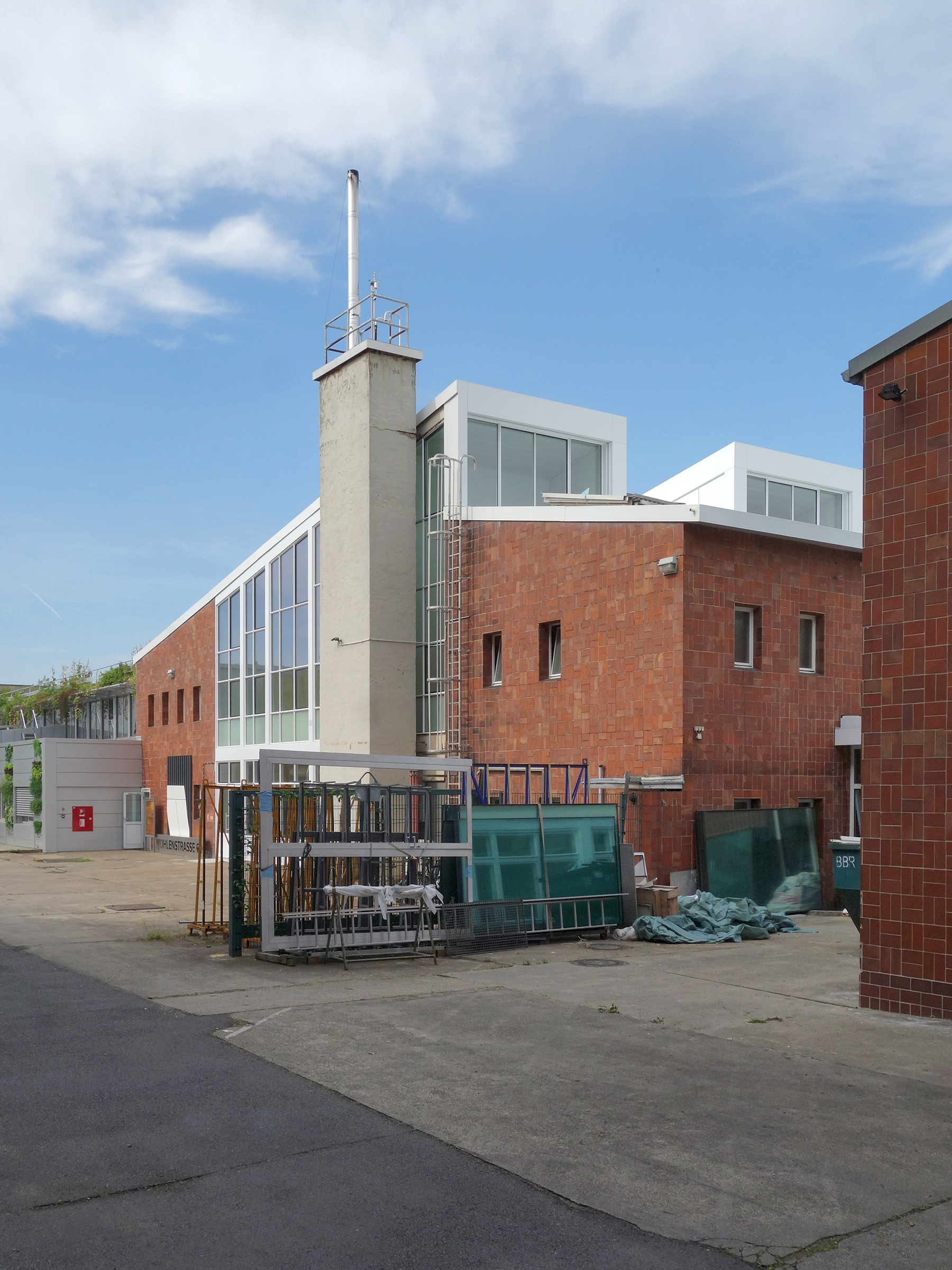 Konrad Sage: Electrica capacitor factory, Berlin-Lankwitz 1956-57 (State Monument ID 09065435)